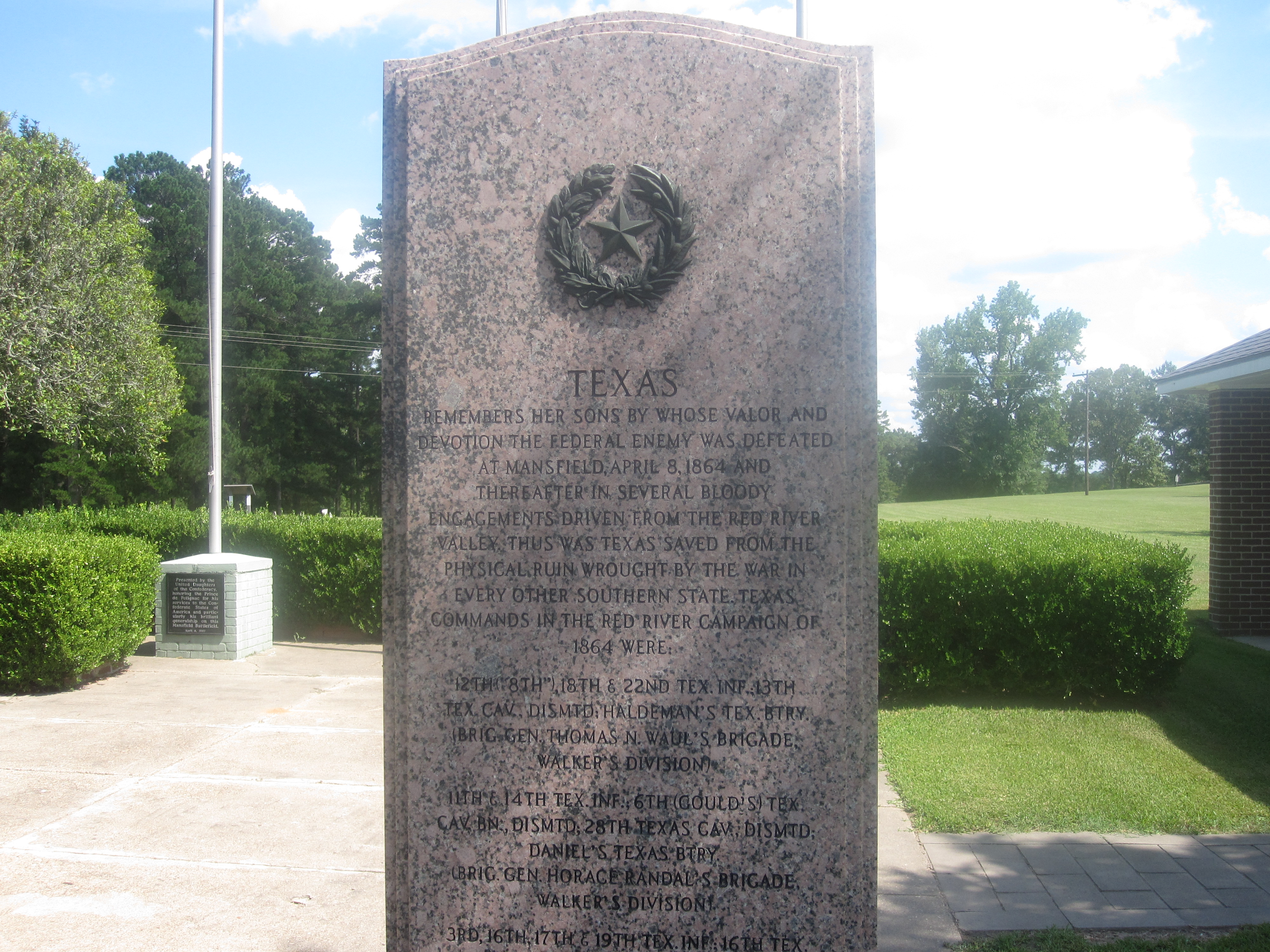 Texas monument at Mansfield Historic Site, Mansfield, LA